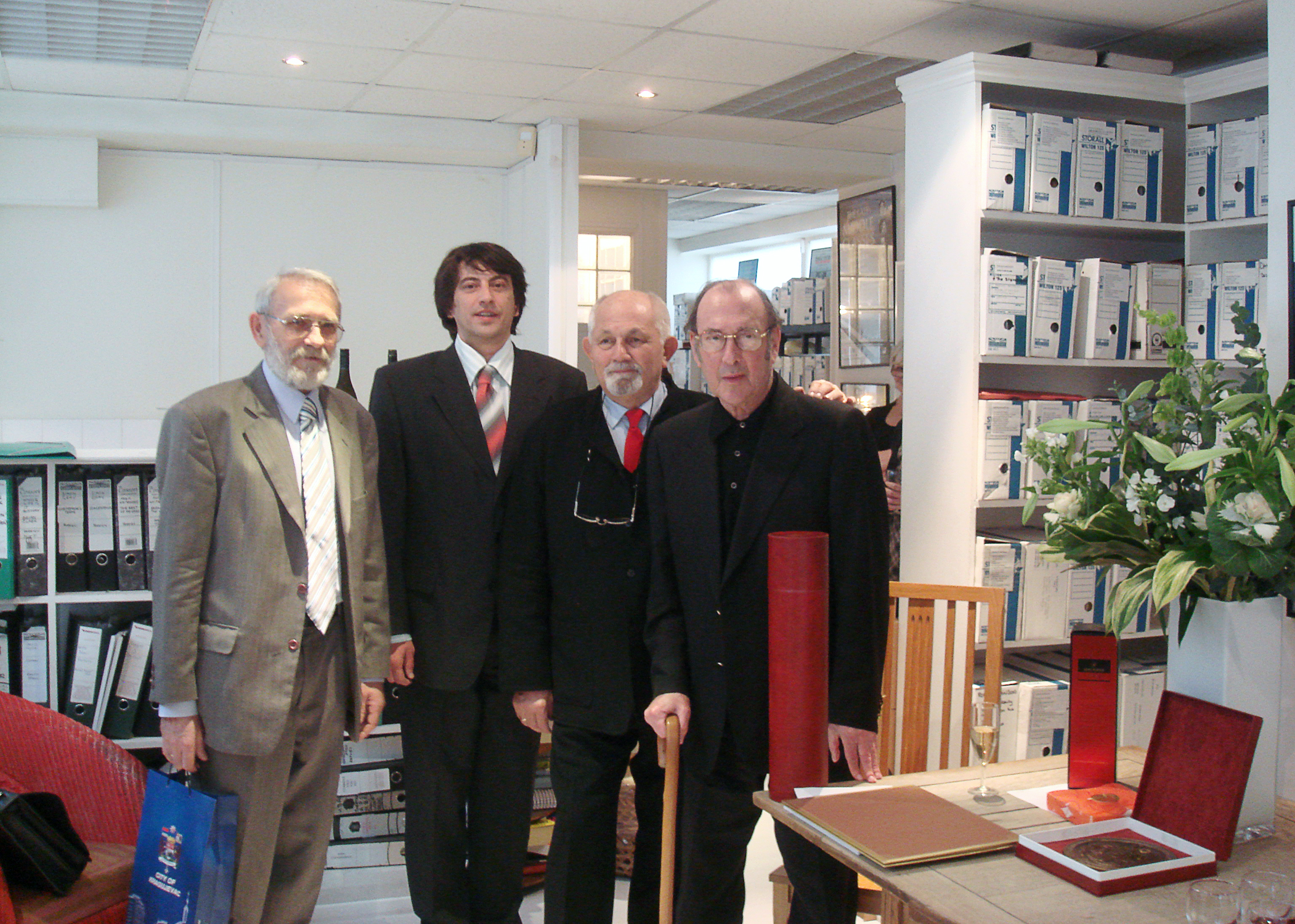 Image of ..., Saša Milenić, Milovan Danojlić and Harold Pinter